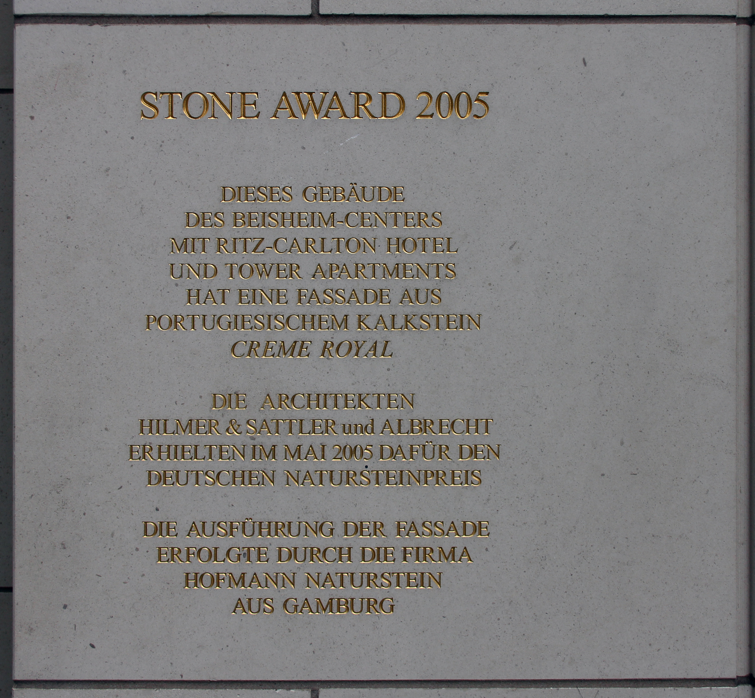 Memorial plaque, Stone Award 2005, Potsdamer Platz 3, Berlin-Tiergarten, Germany